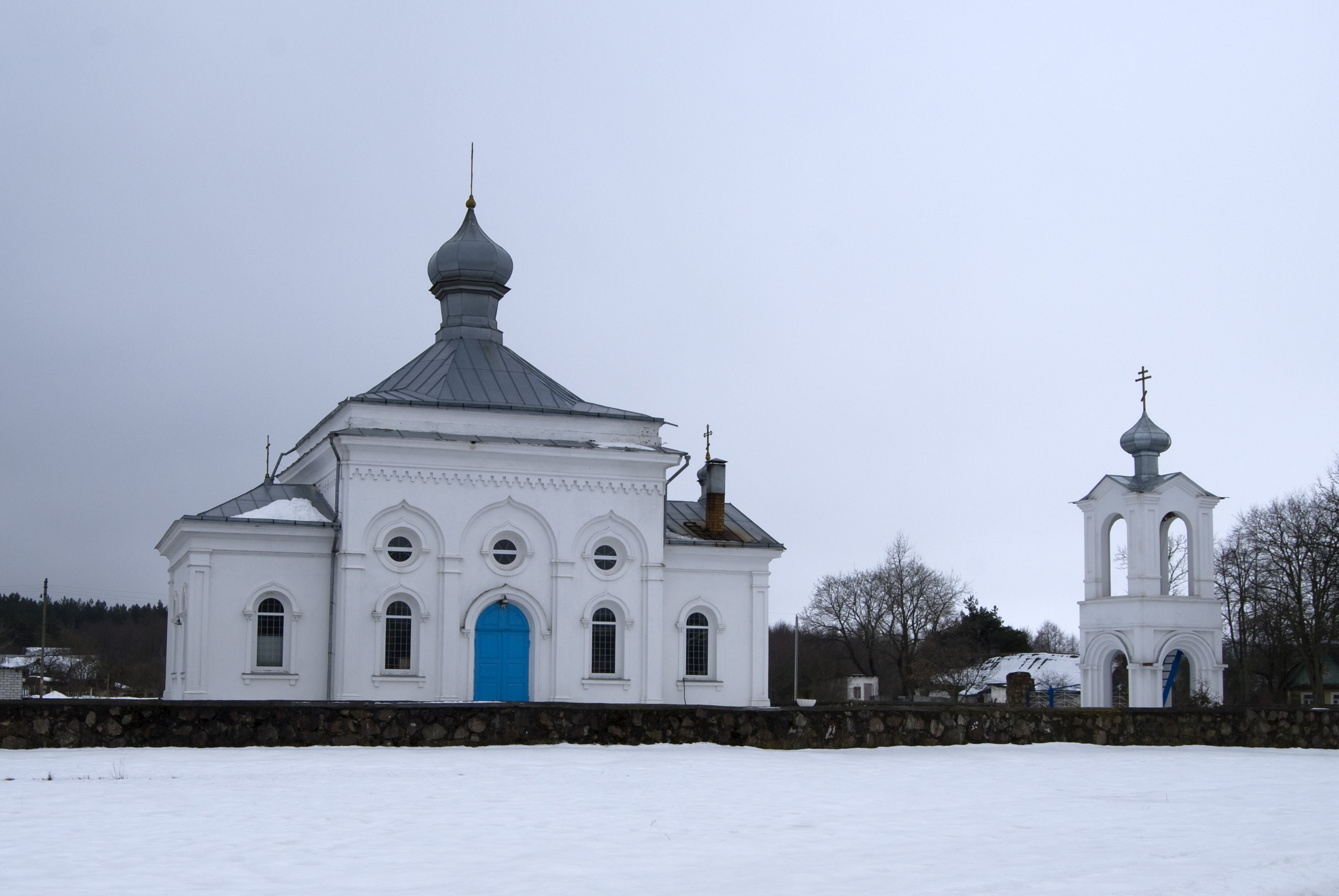 Church in Navajelnia